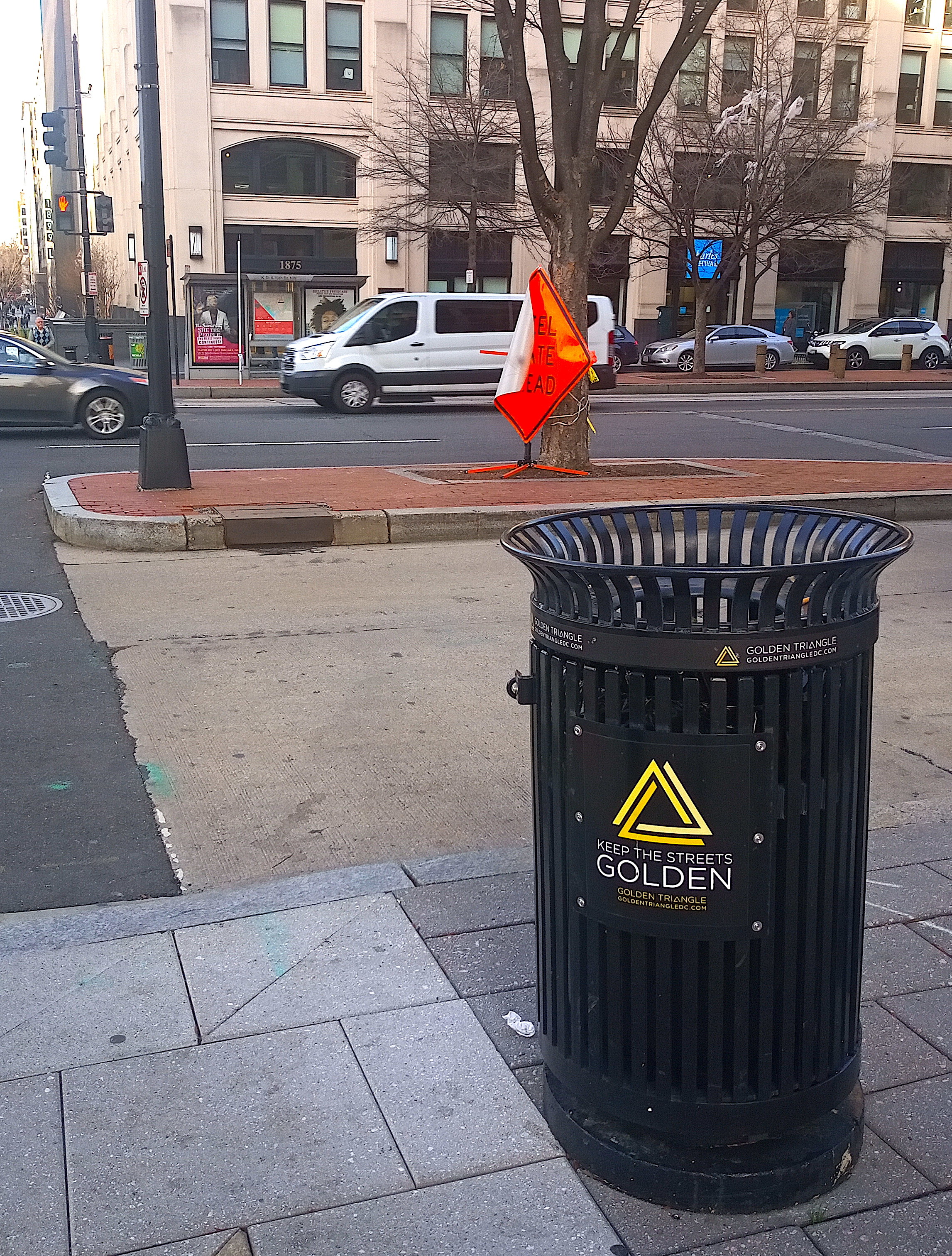 Waste receptacle made of black painted bar steel, bearing the insignia of the Golden Triangle neighborhood in Washington DC. The receptacle exhorts passersby to "keep the streets golden", possibly a reference to billing rates.